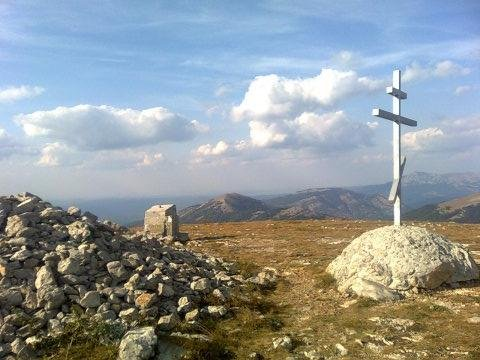 Mount Roman-Kosh (1545 metres high), is also the highest peak of the Crimea